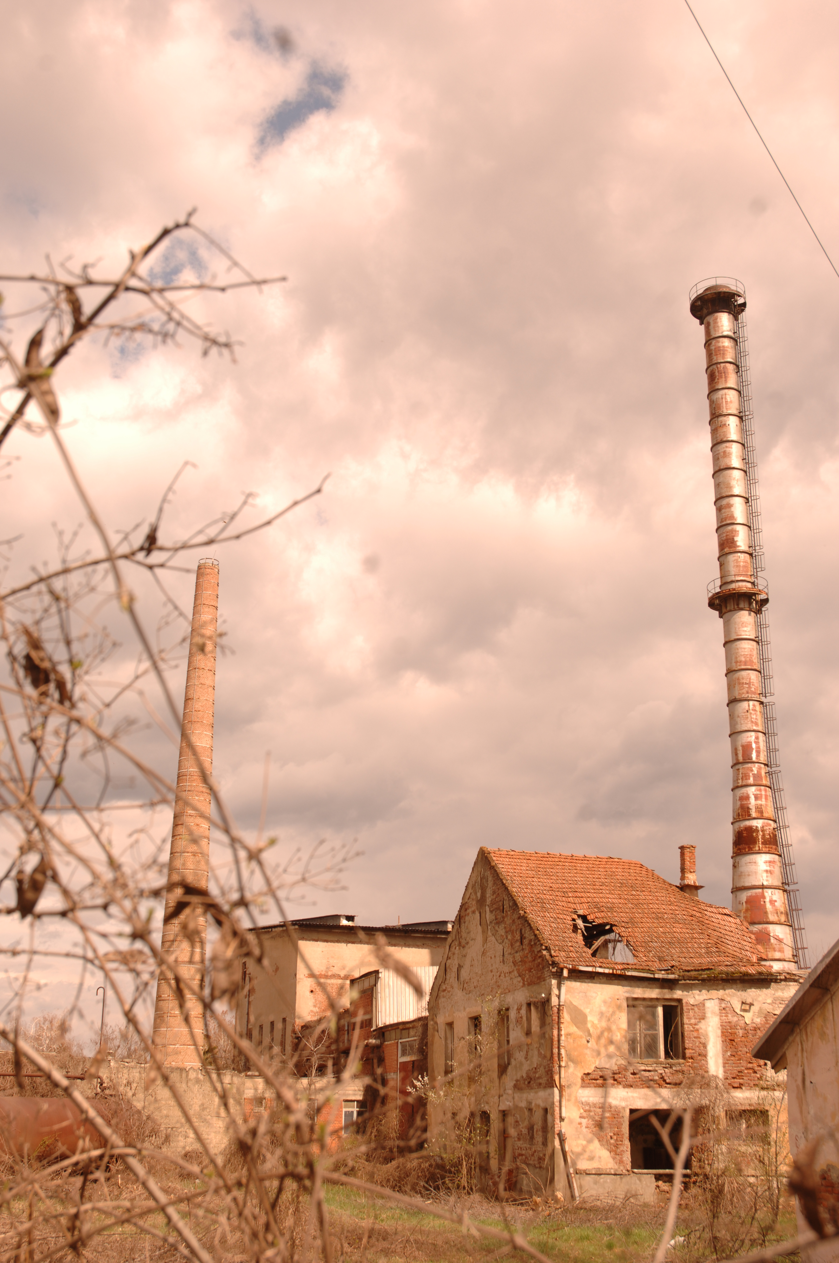 One of the many factories of Gjakova now ruined, once a proud industry which people still are nostalgic about. This factory now is closed down as all of them are.